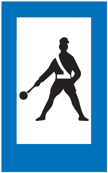 Diagram of road signs of Luxembourg